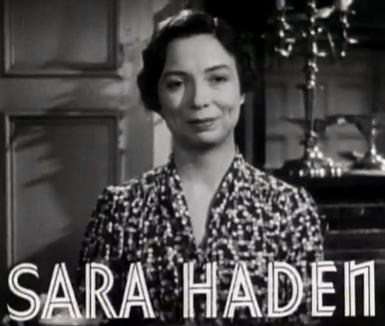 Sara Haden in A Family Affair - trailer (cropped screenshot)